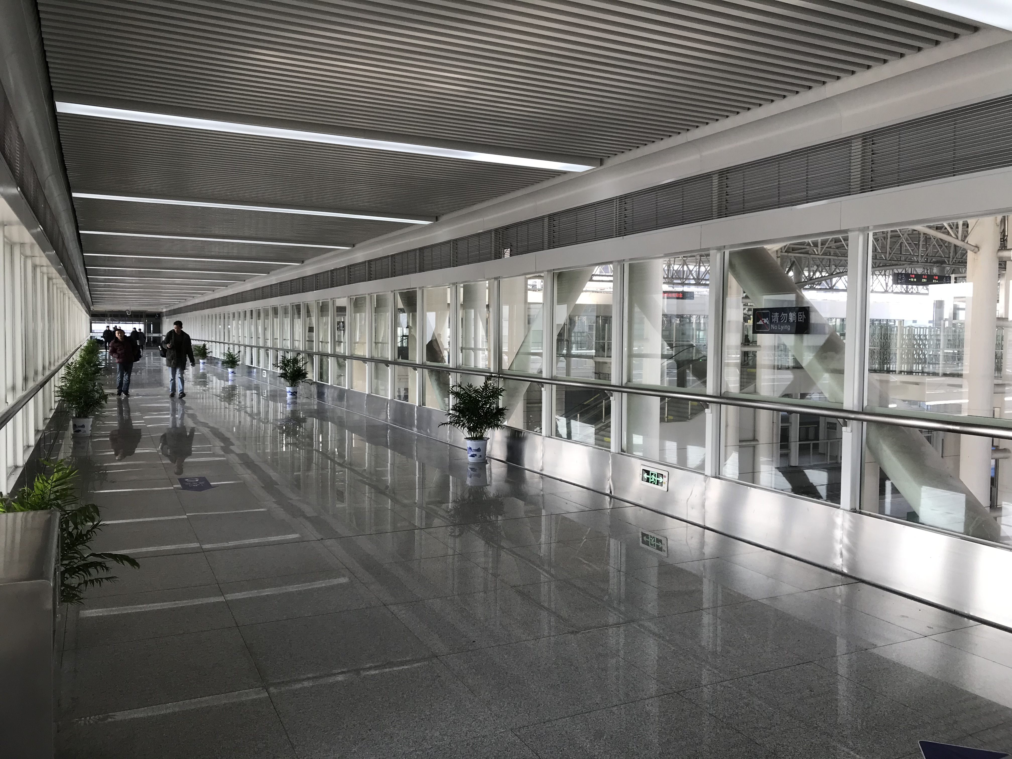 It is not a bad place for spotting the inbound train in the afternoon, but there is no AC inside...